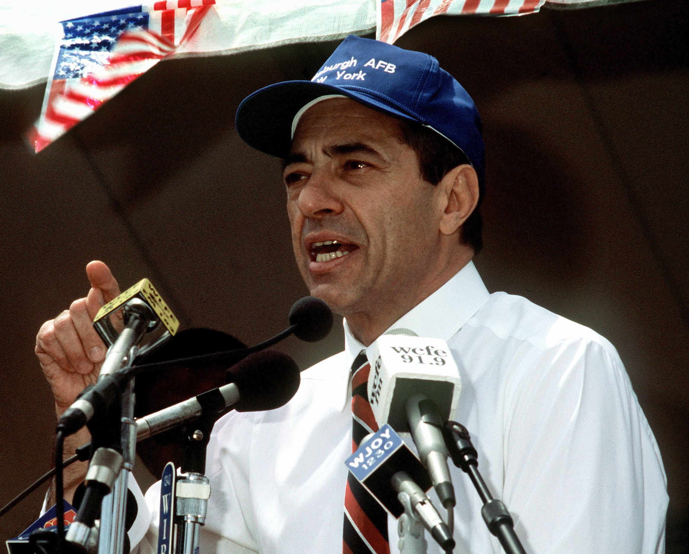 "New York Governor Mario Cuomo speaks at a rally to prevent the closing of Plattsburgh Air Force Base."